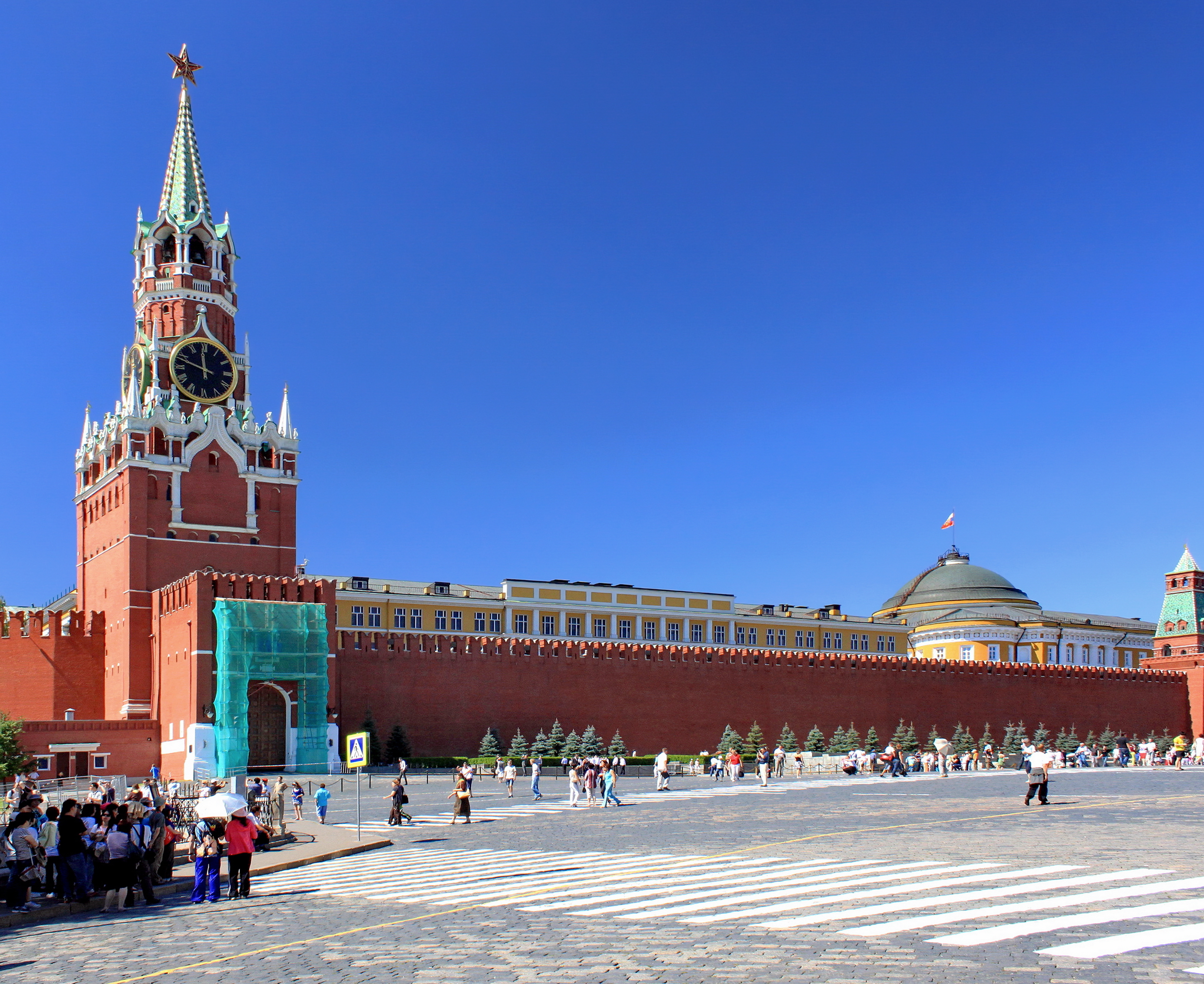 Spasskaya Tower and Red Square. Moscow, Russia.